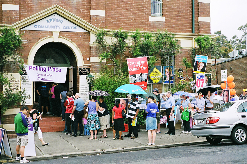 Voting in Australian Federal Election 2007 at Epping in the electorate of Bennelong (the Prime Minister John Howard's seat – he lost both the election and his own seat).